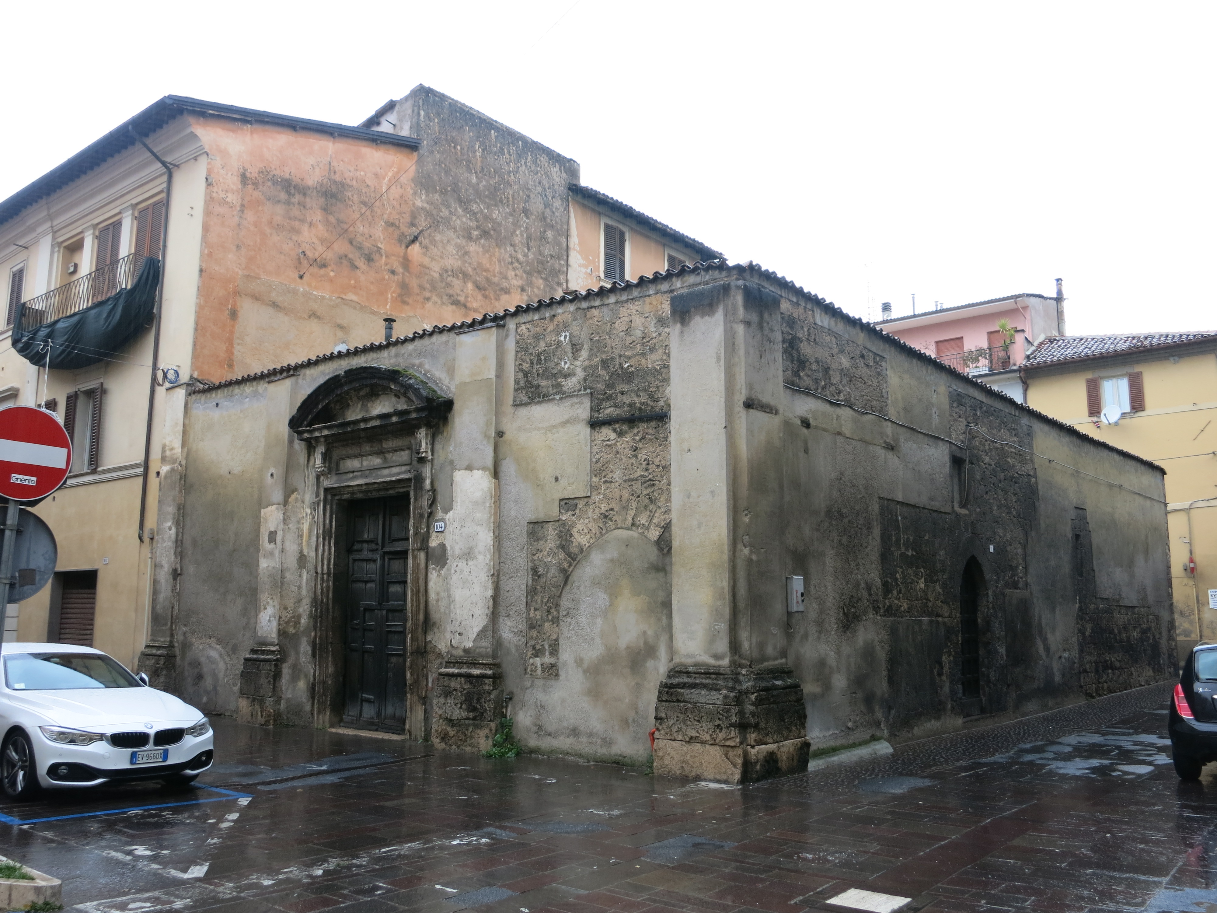 Former Santa Maria al Corso church. Rieti, Lazio, Italy